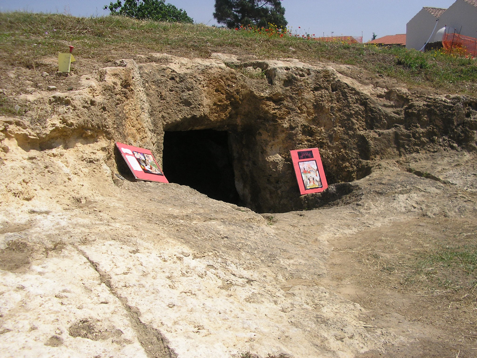 Domus de janas in Cannas di Sotto area, in Carbonia, Sardinia, Italy